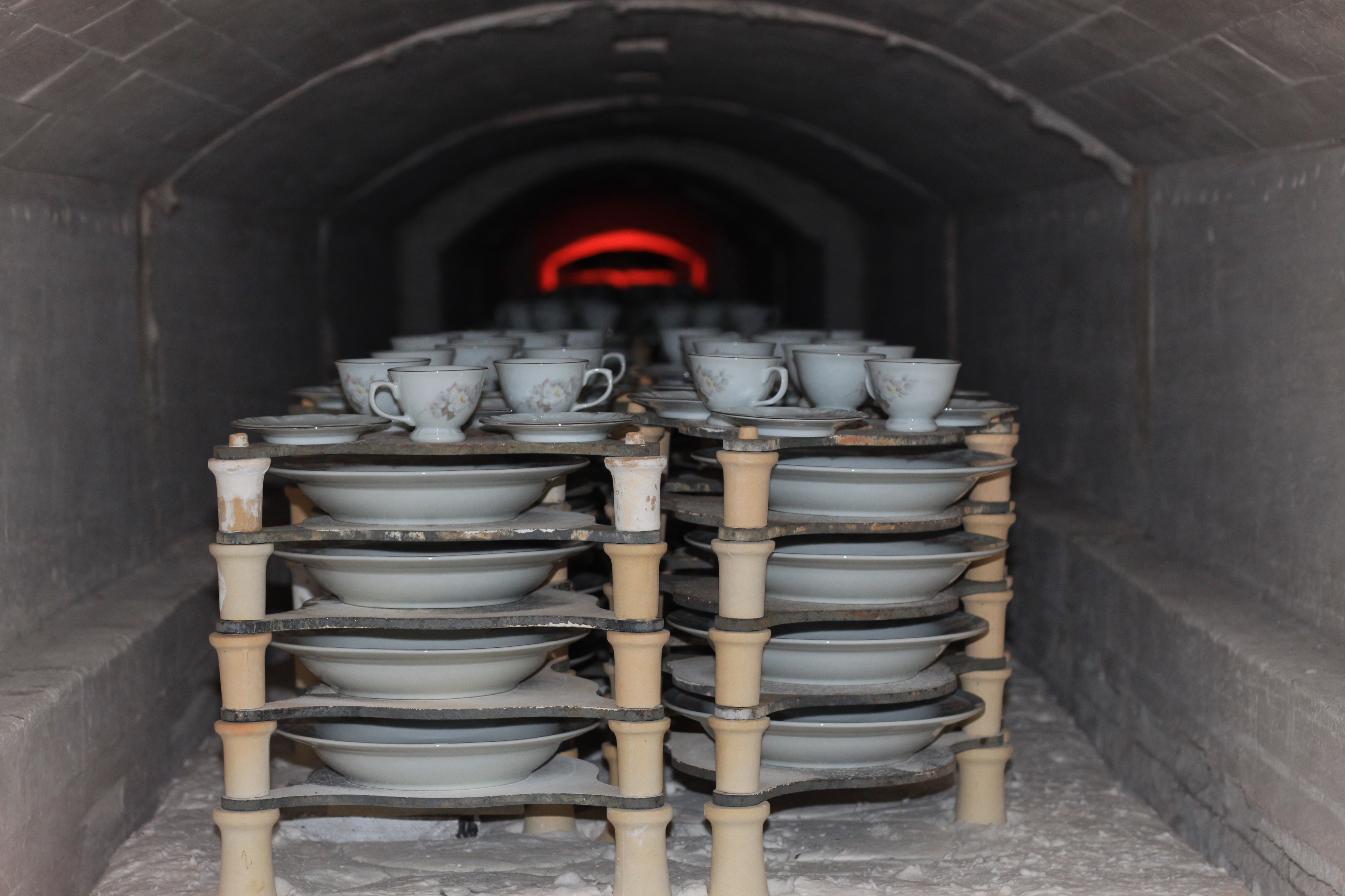 Porcelain Decoration Kiln From Porcelana Schmidt Brazil